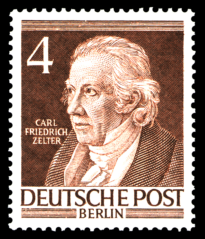 stamp series, men of the history of Berlin I, Carl Friedrich Zelter, (1758-1832)